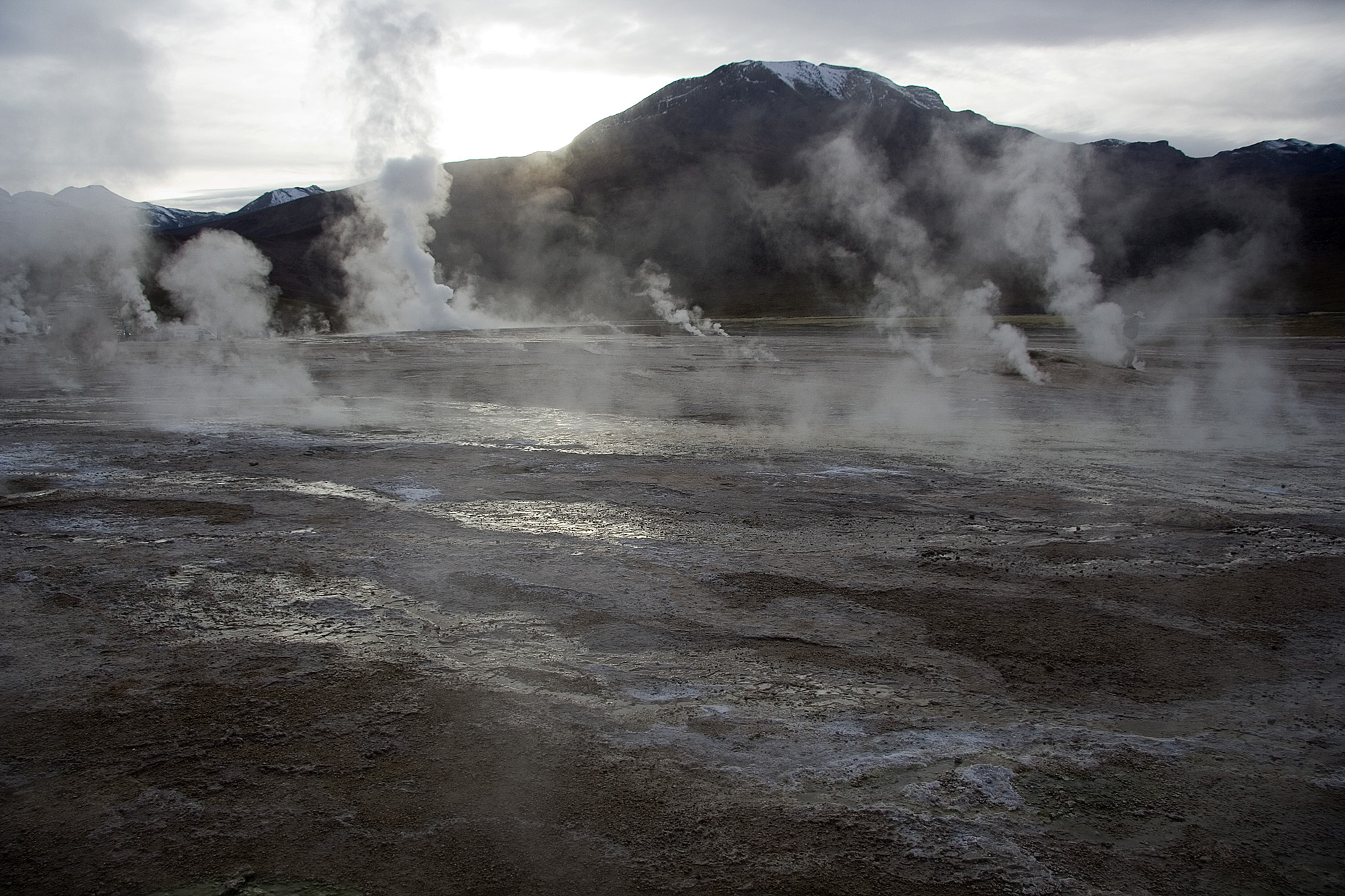 El Tatio Geyser Field 4200m Alt., Nortern Chile.